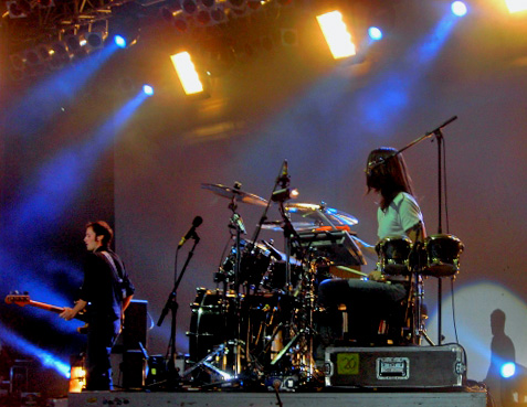 Pola Roy (Wir sind Helden) live at Museumsplatz, Bonn